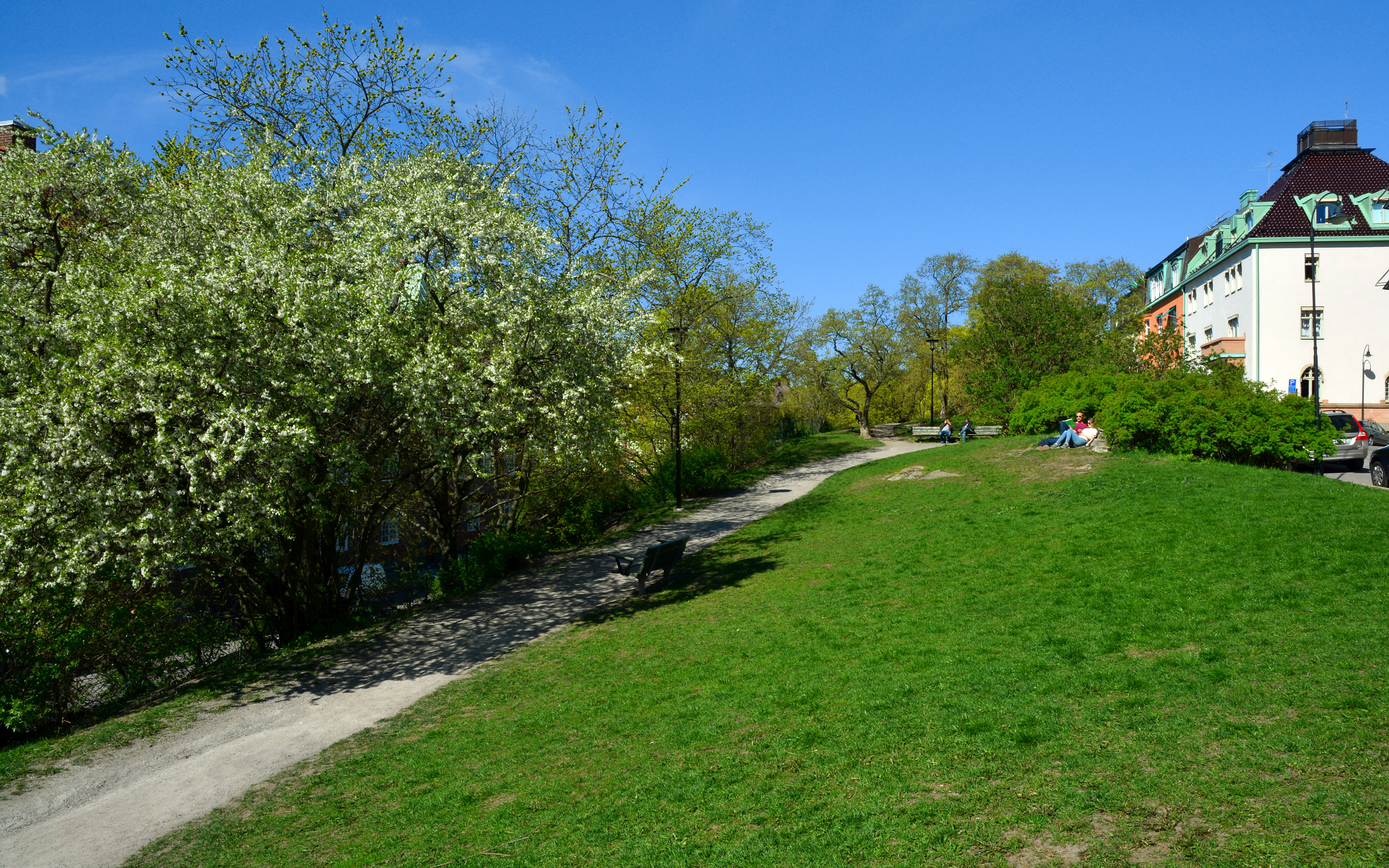 The park Balders hage (Baldurs pasture) in Lärkstaden, Östermalm, Stockholm.